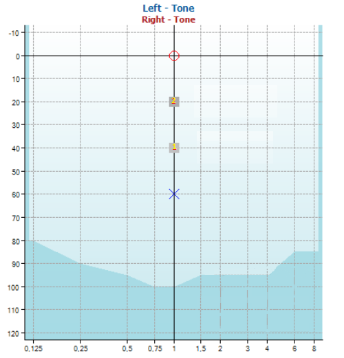 Stenger Test. Come si effettua: 1. Si istruisce il paziente come se dovesse fare una audiometria tonale liminare, senza dirgli che gli stimoli vengono presentati simultaneamente ad entrambi gli orecchi. 2. Ci si colloca 10-20 dB sopra soglia nell’orecchio migliore 3. Ci si colloca 10-20 dB sotto soglia nell’orecchio peggiore 4. Si mantiene costante l’intensità nell’orecchio migliore 5. Si aumenta con step di 5 dB l’intensità nell’orecchio peggiore Se la perdita uditiva nell’orecchio peggiore è reale il paziente continuerà a rispondere al segnale presente nell’orecchio migliore (ESITO NEGATIVO ALLA PROVA DI STENGER), se la perdita è simulata allora non risponderà allo stimolo, il che dimostrerà che il tono presentato all’orecchio peggiore è migliore di quello che ha indicato il paziente (ESITO POSITIVO ALLA PROVA DI STENGER)